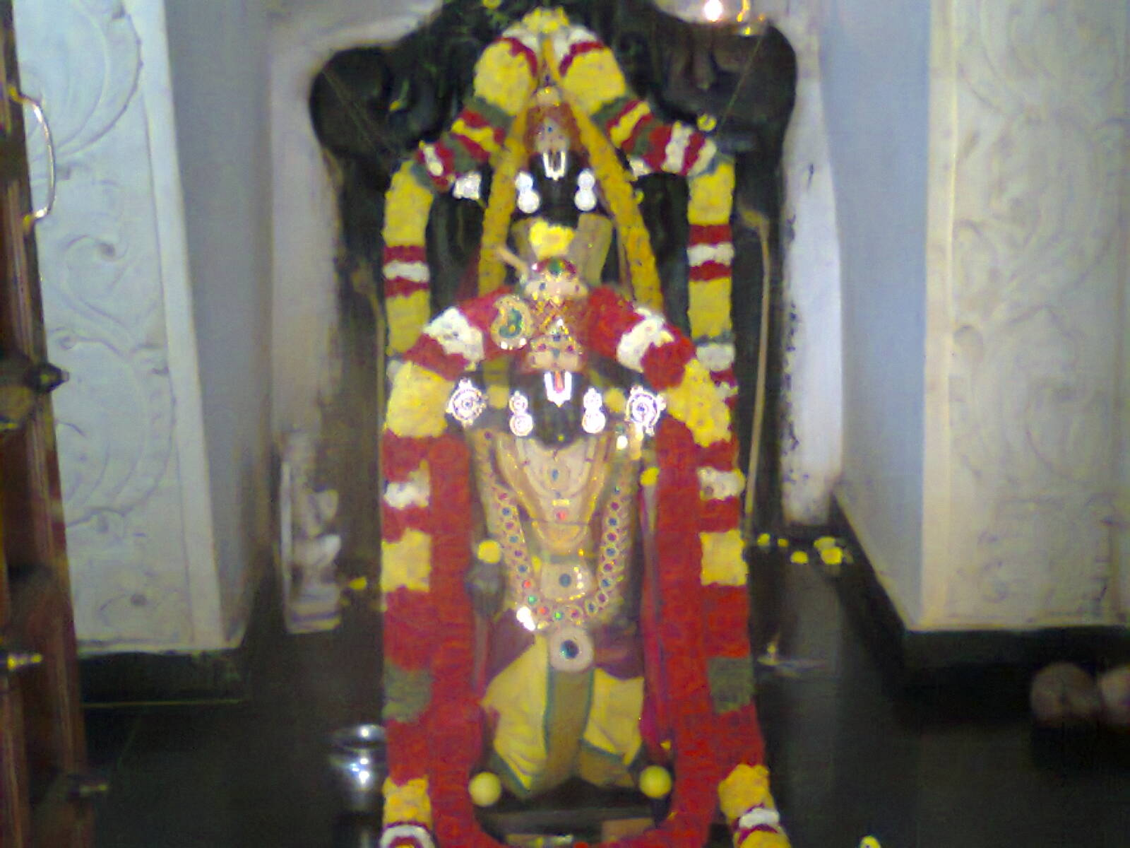 Sri ThenVenkatachalapthy